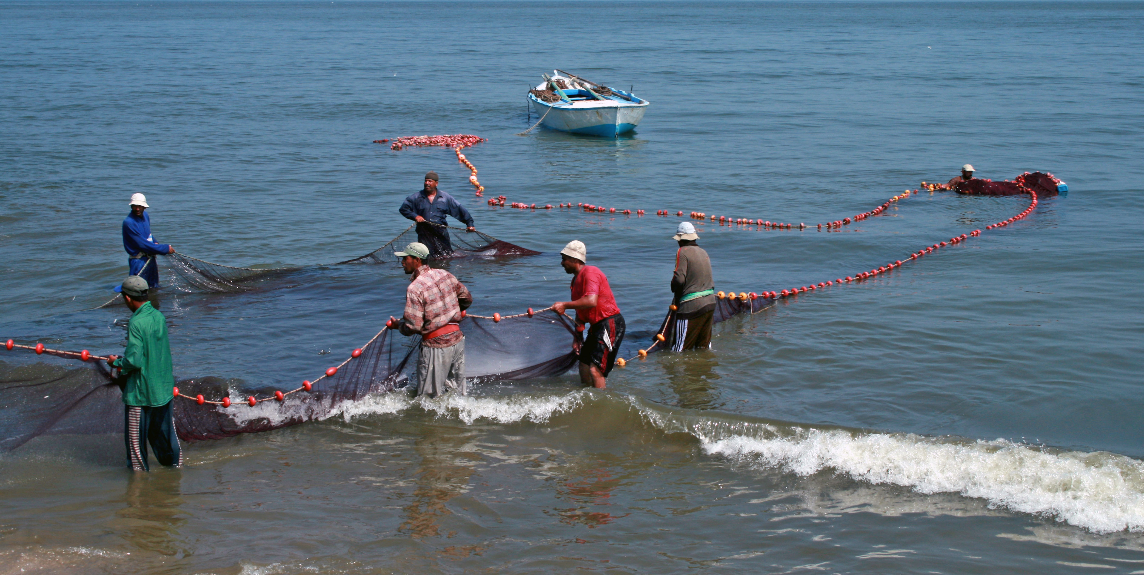 Fishermen in Manzala Lake, Egypt This is an image of "African people at work" from Egypt